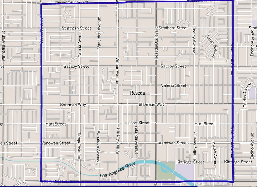 Map of Reseda, California, as drawn by the Los Angeles Times Other information Boundary map as drawn by the Los Angeles Times on a CC-by-SA background. Note at bottom right of map on the L.A. Times website noted above says "CC-by-SA" (which gives permission to use the map). There is a link there to which explains the meaning thereof. The base map is credited to The Times spells all this out at